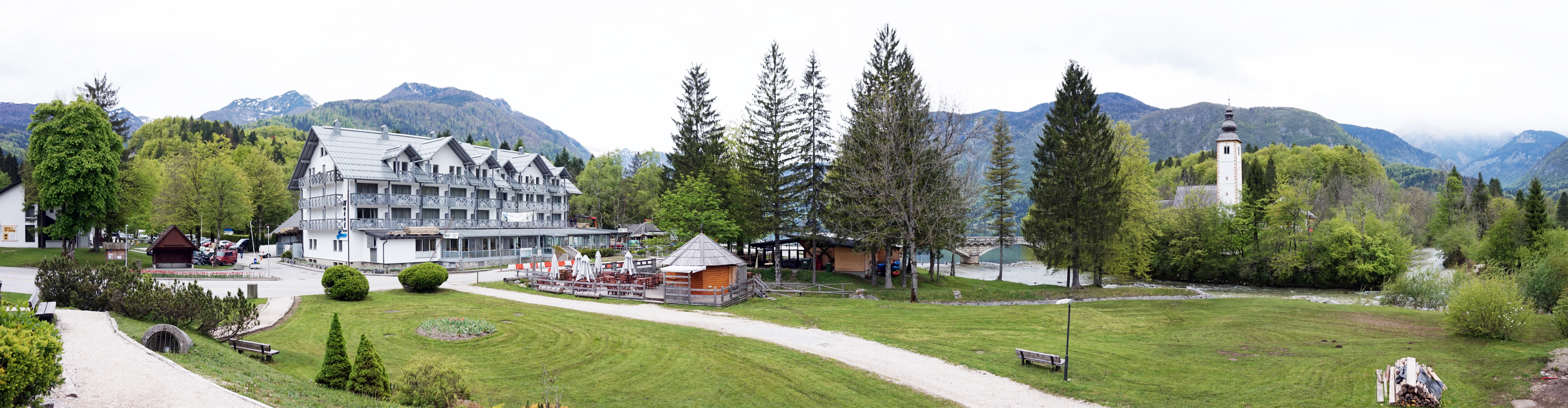 Ribčev Laz, Slovenia.This photograph was taken with a Sony ILCE-5000